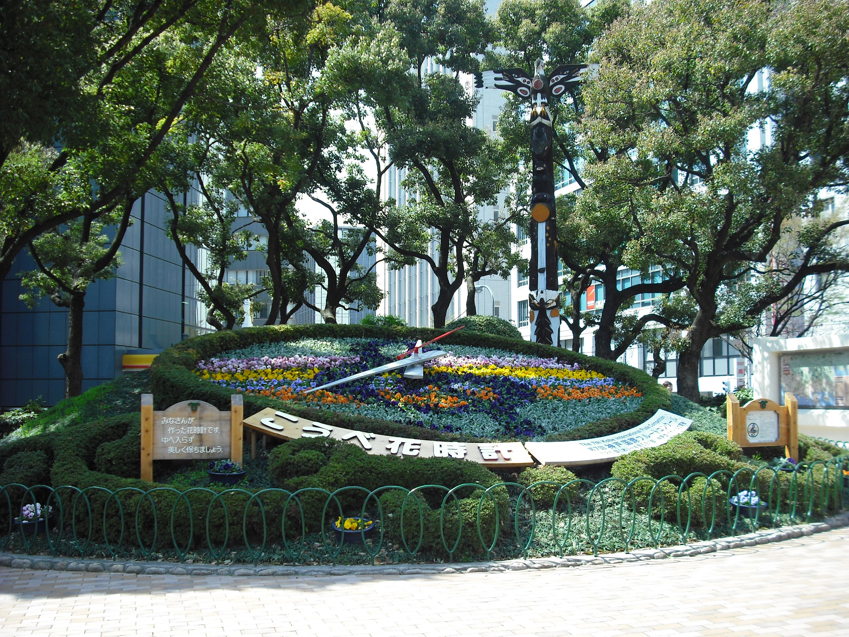 Hana-Dokei（Chuuou-ku,Kobe,Hyogo Prefecture,Japan）